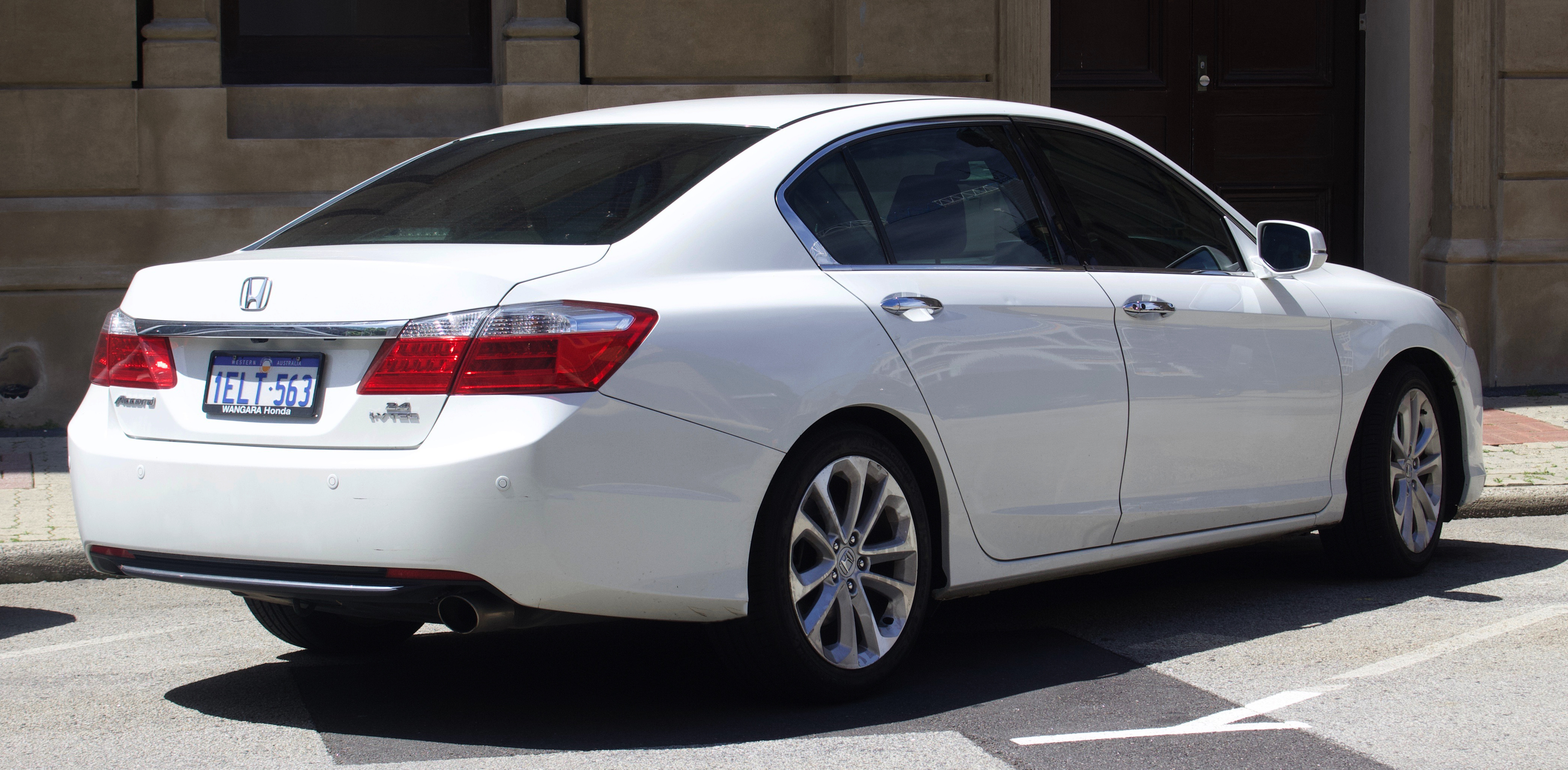 2013 Honda Accord 2.4 i-VTEC sedan. Photographed in Fremantle, Western Australia, Australia.